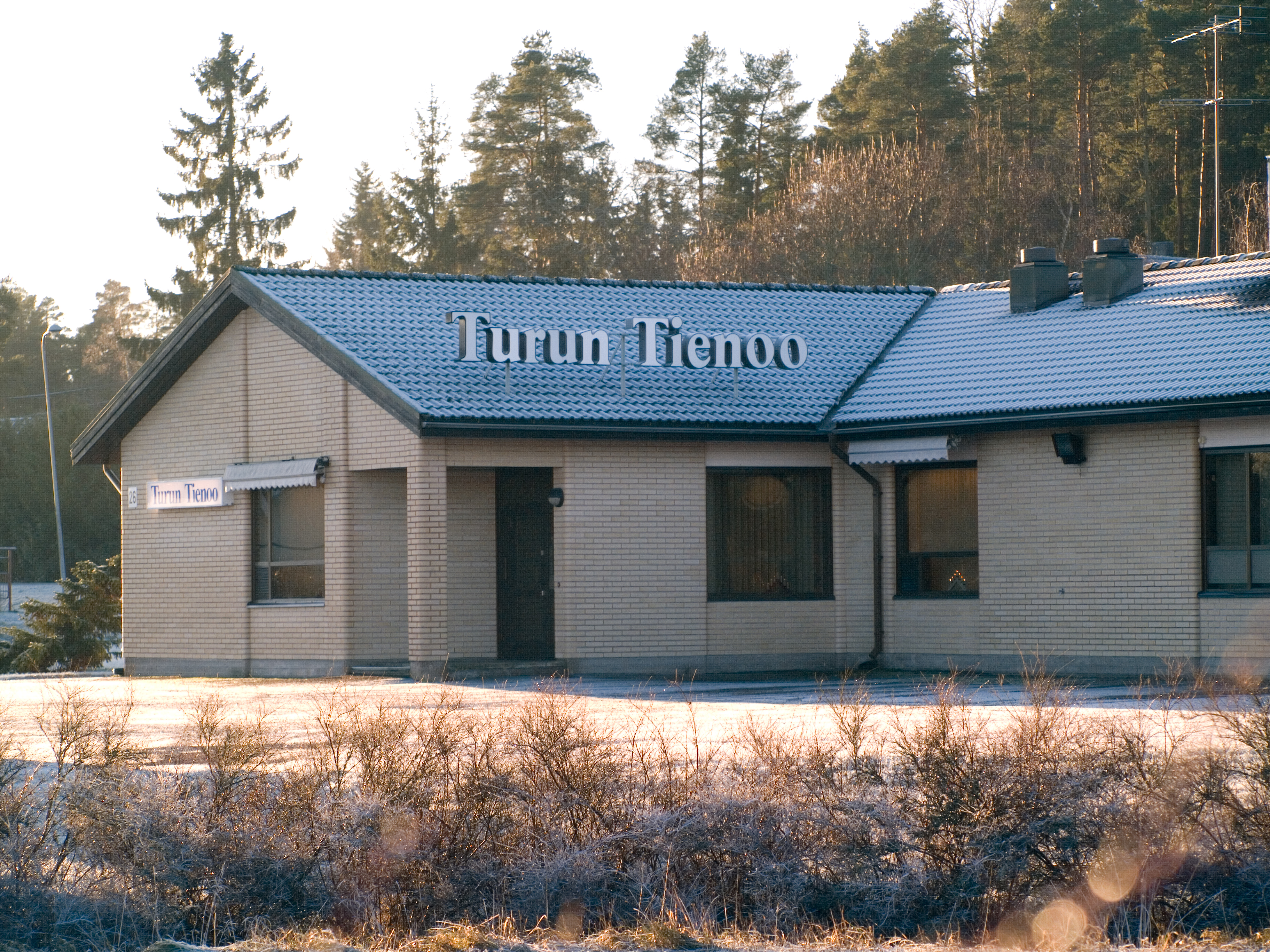 The office of local newspaper Turun Tienoo, located in Asemanseutu, Lieto (= Liedon asema), Finland. Dec 2013.